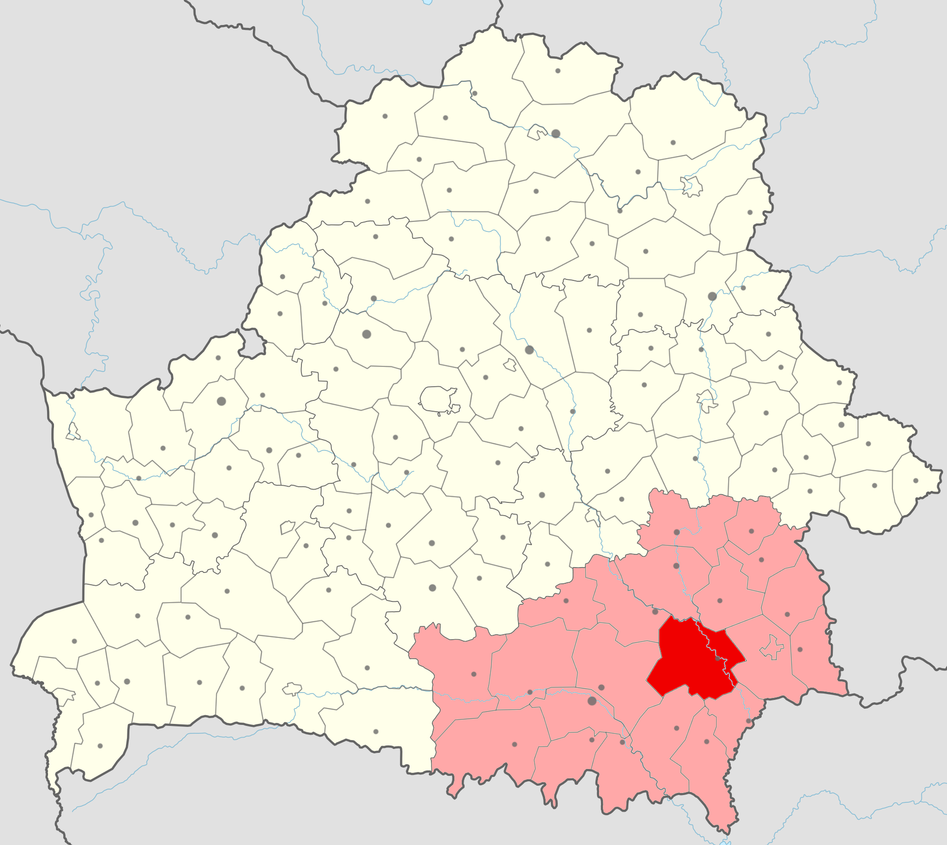 Location of Rečycki rajon (red) in Homieĺskaja voblasć (light red) in Belarus.